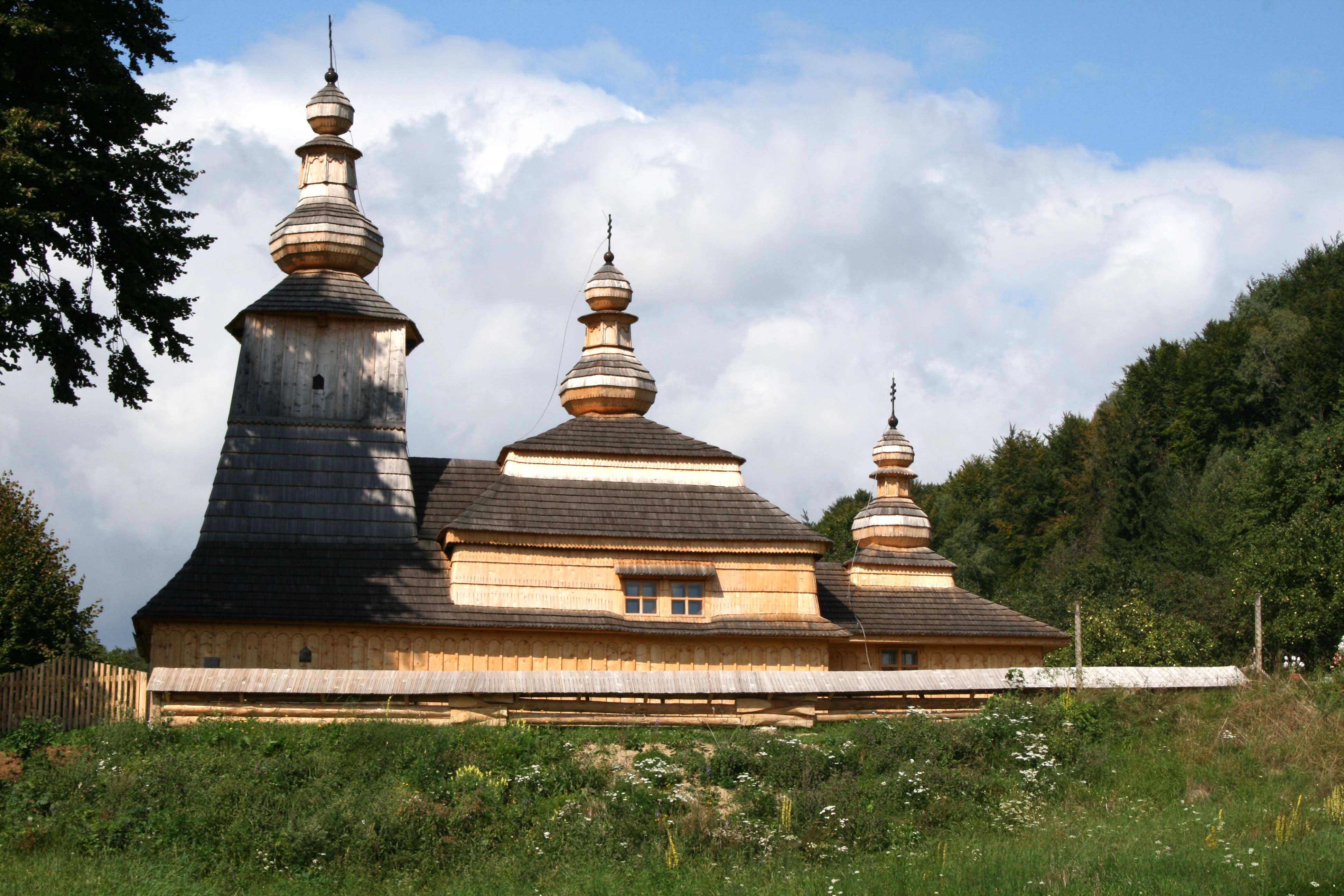 Mirola, Griechisch-katholische Kirche This medium shows the protected monument with the number 712-223/1 in the Slovak Republic.